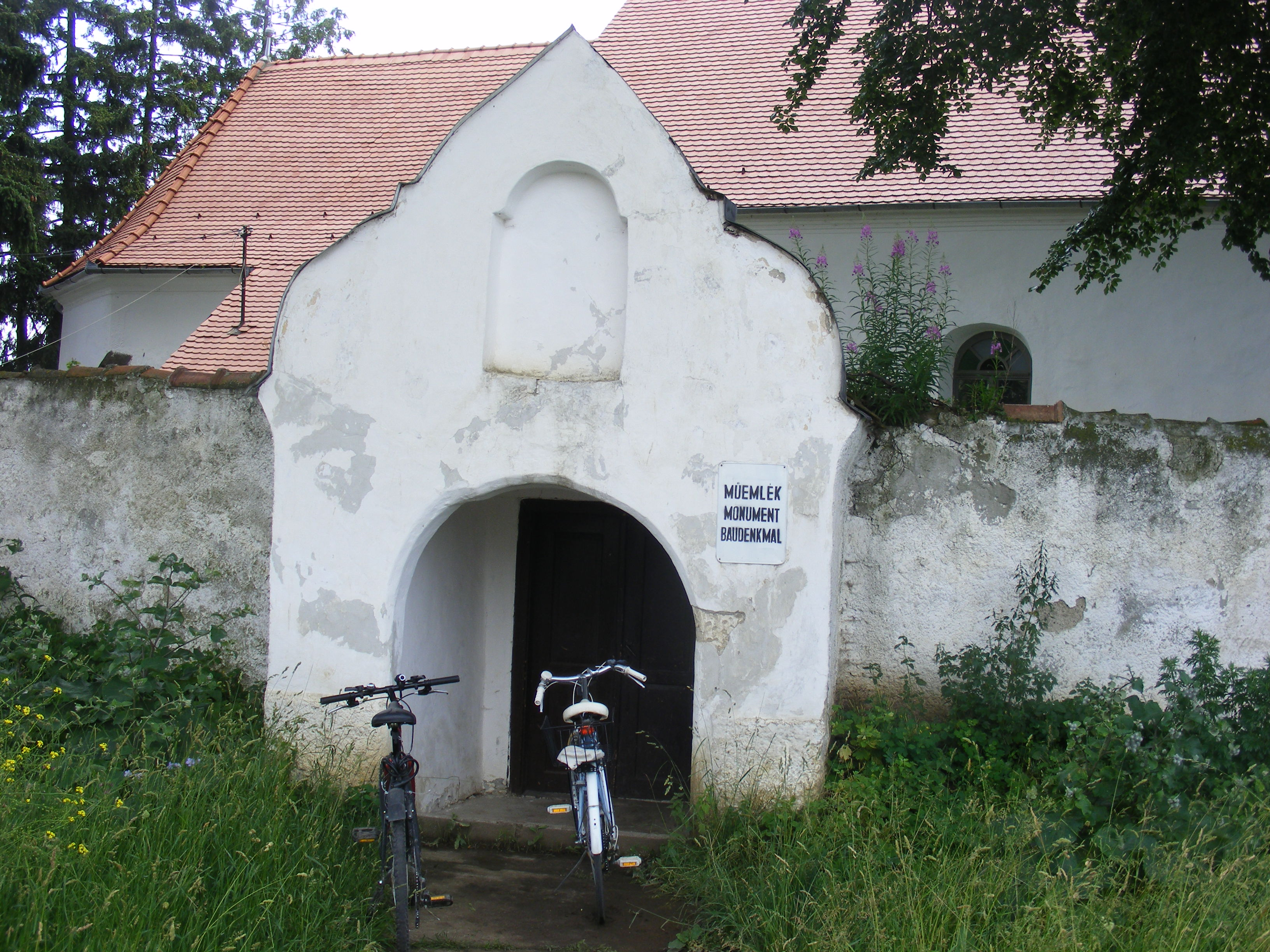 Church in Csíkmindszent (Misentea), Székelyföld, Romania